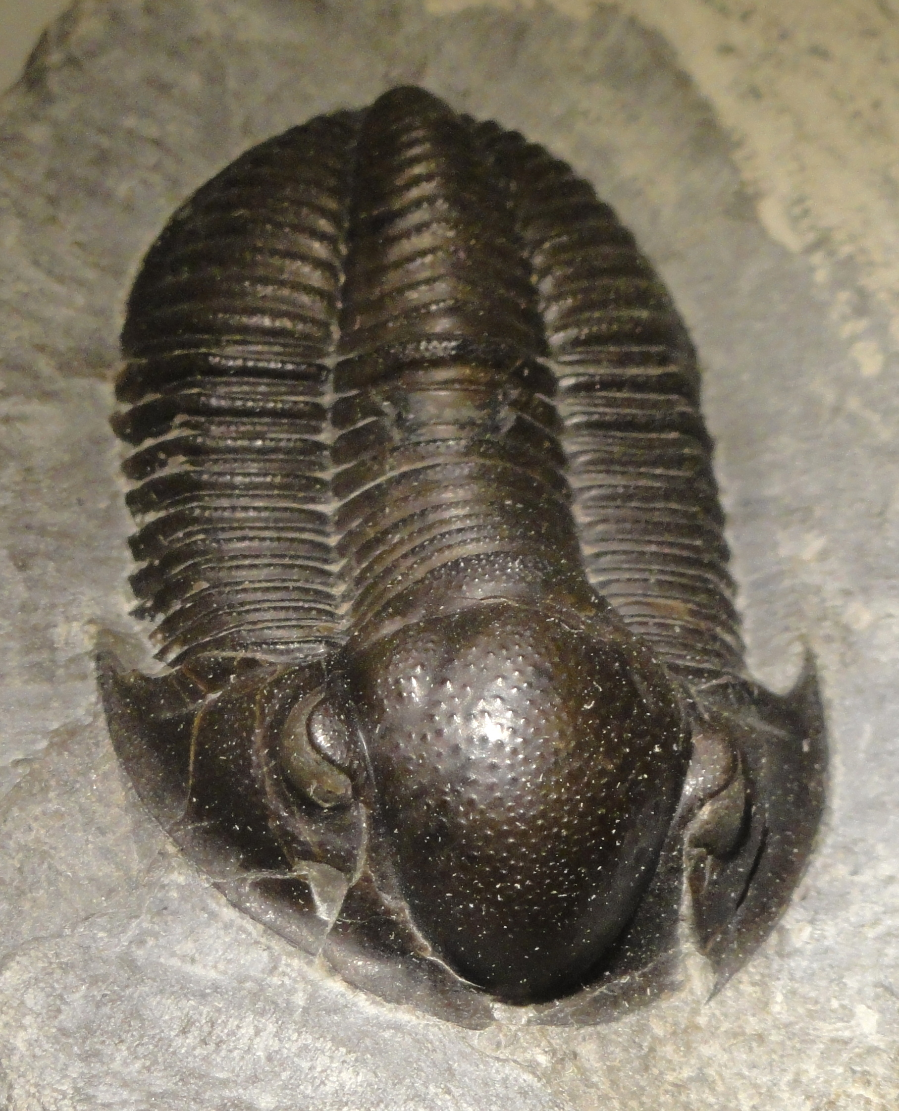 Exhibit in the Houston Museum of Natural Science, Houston, Texas, USA.